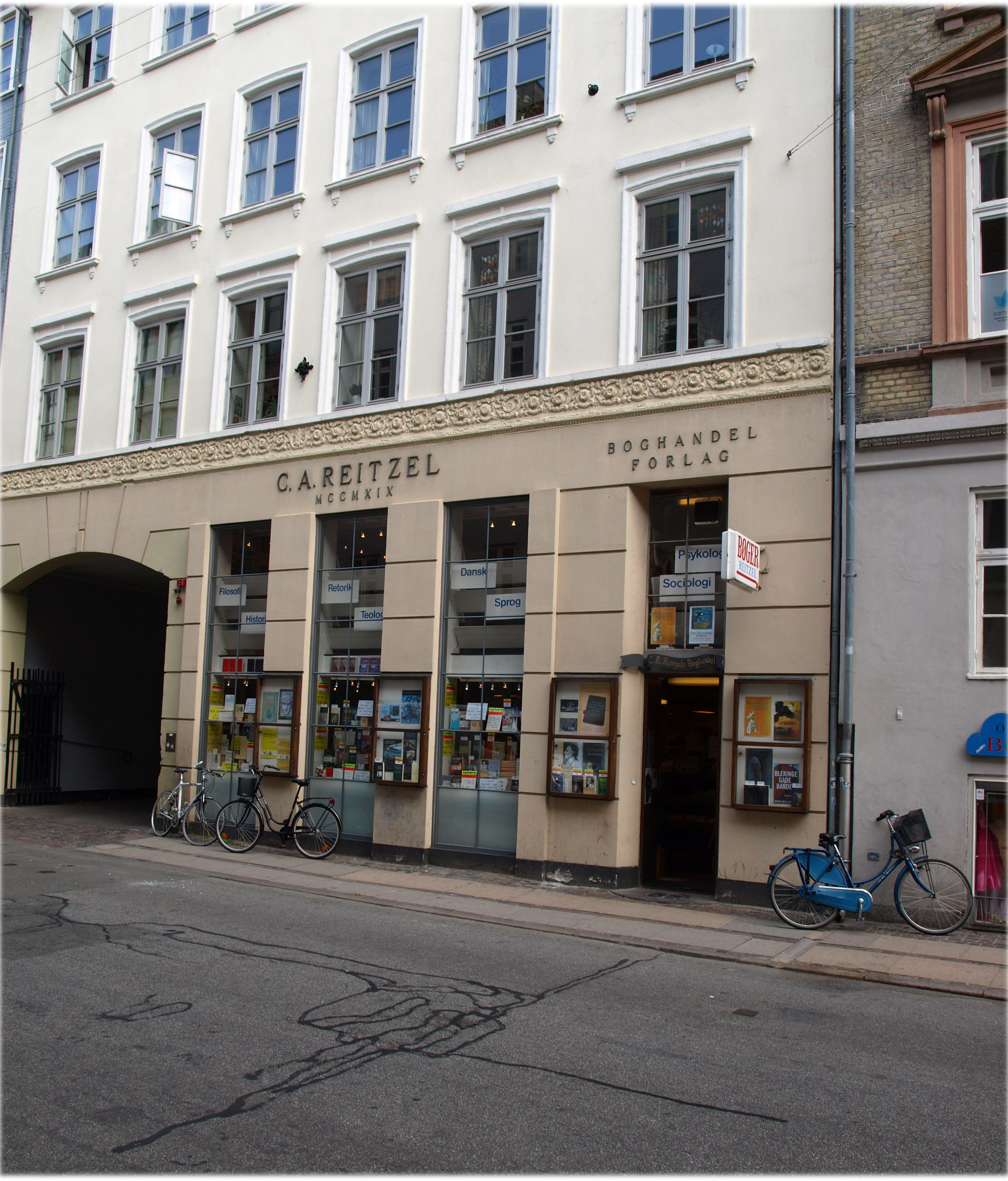 C.A. Reitzels boghandels facade på Nørregade i København.